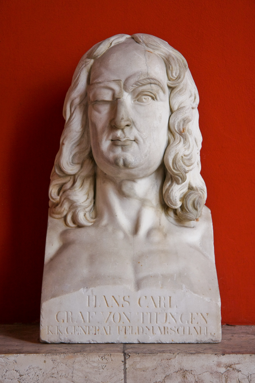 Bust of Johann Karl von Thüngen at the Ruhmeshalle ("Hall of fame"), München, Germany